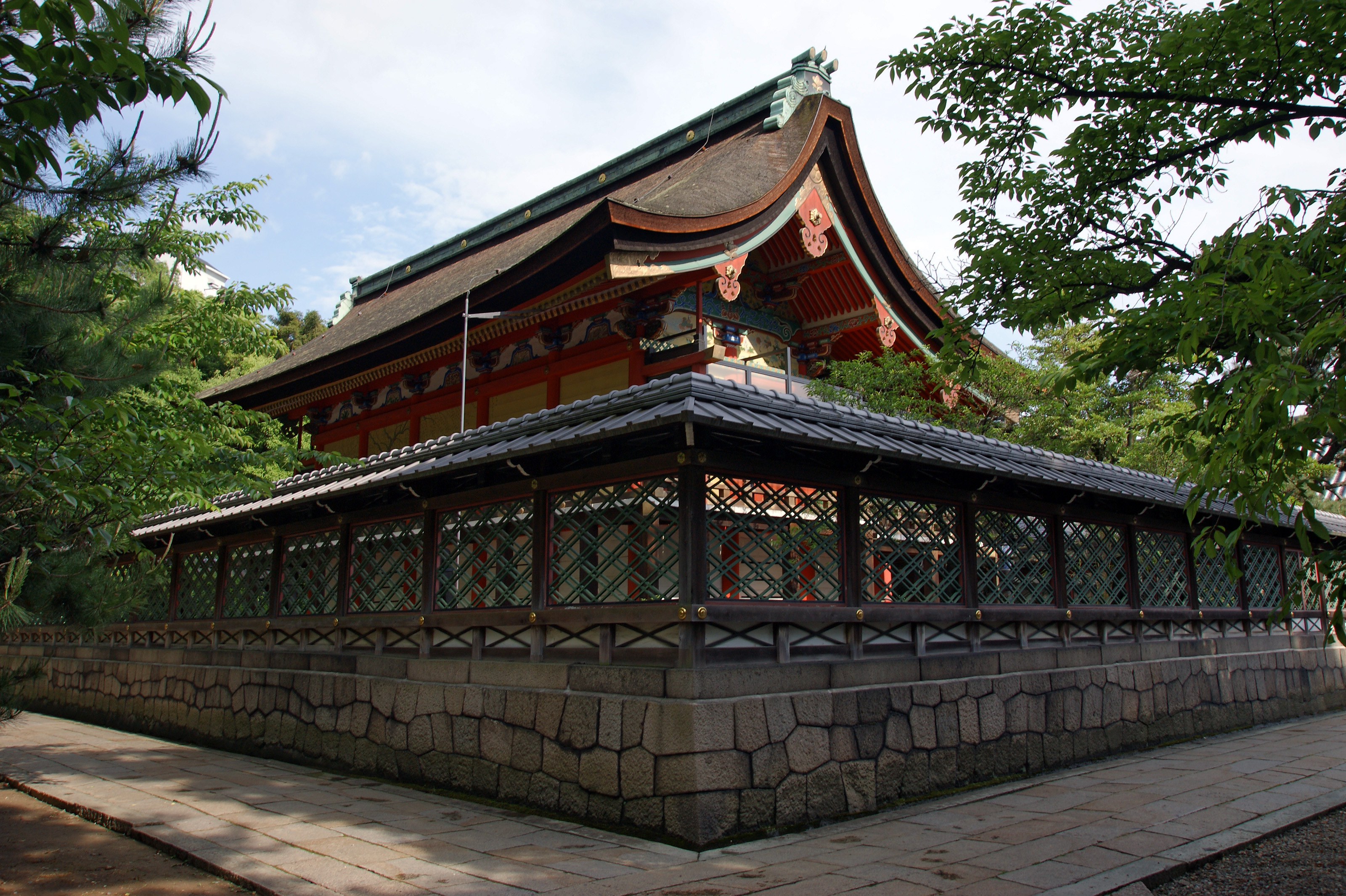 Gokogu-jinja in Kyoto, Kyoto prefecture, Japan